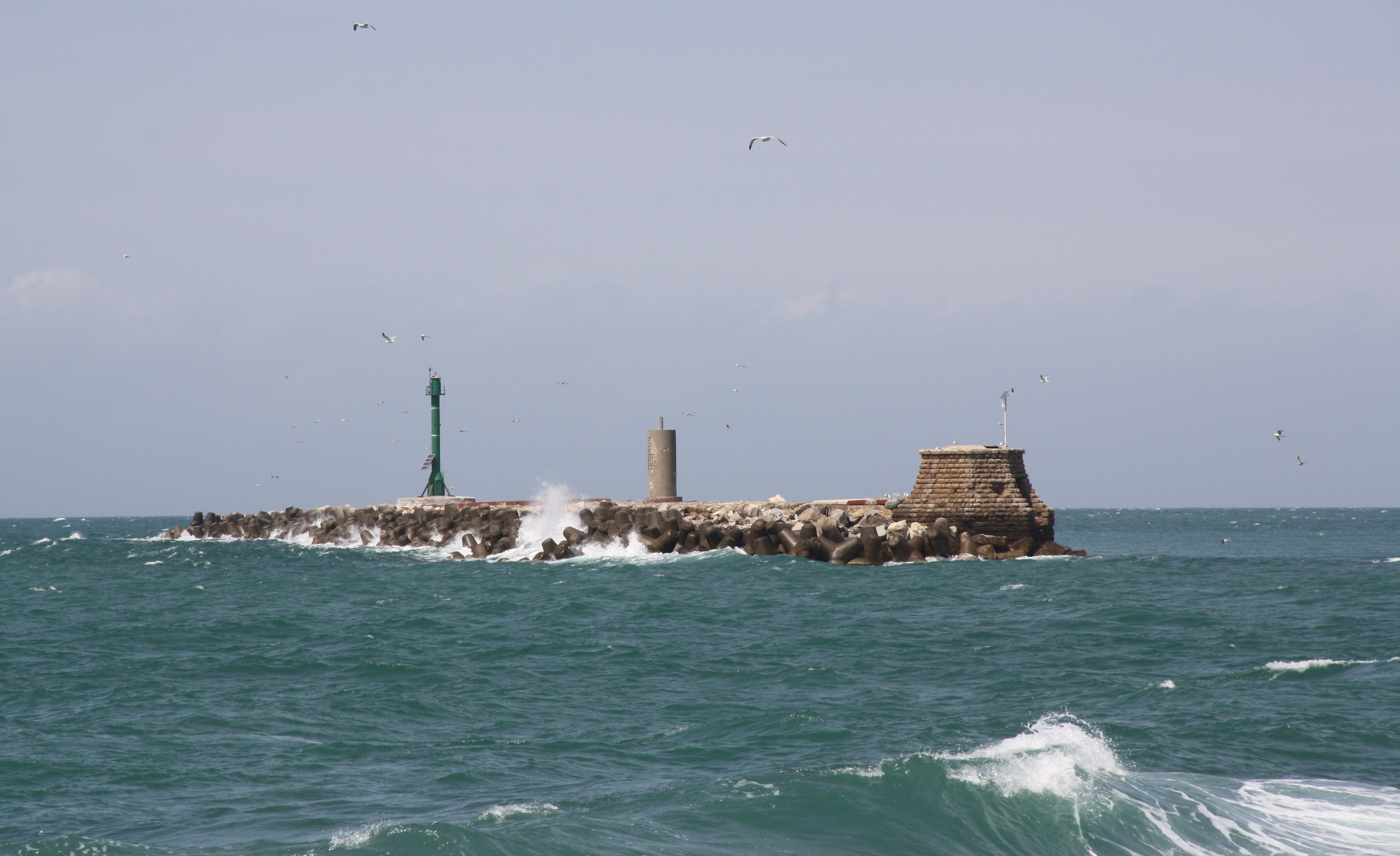 Italy, Port of Livorno, Diga della Vegliaia.